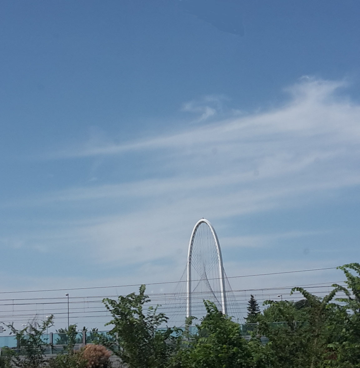 In this photograph is visible only the pylon of one of the two lateral bridges. It's seen from the highway.